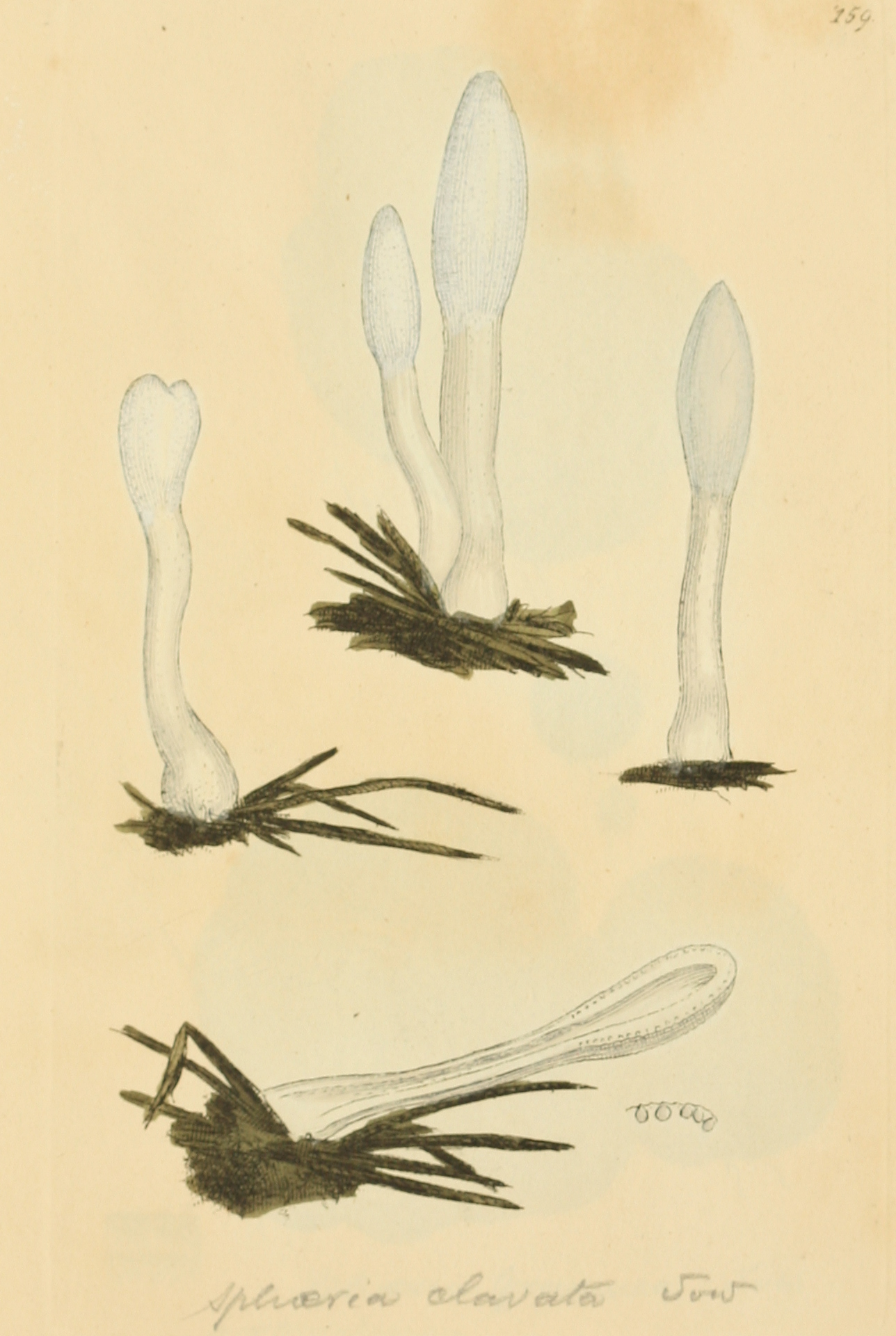 This is a plate from James Sowerby's Coloured Figures of English Fungi or Mushrooms.